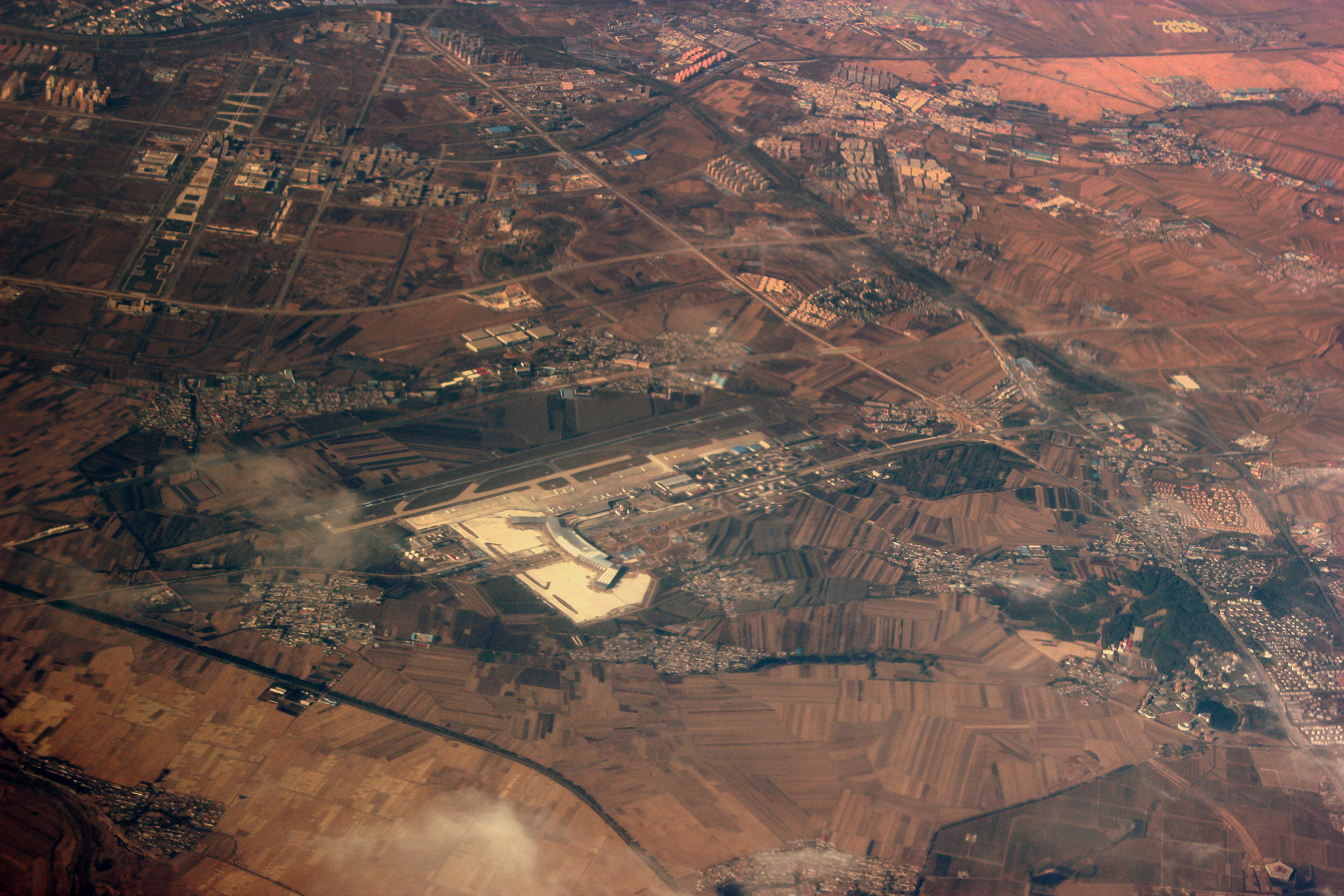 SHENYANG AIRPORT CHINA TAKEN FROM AN AIR KORYO IL62M P881 AT 33000 FEET, OPERATING FLIGHT JS151 FROM BEIJING CAPITAL TO SUNAN AIRPORT PYONGYANG DPR KOREA OCT 2012